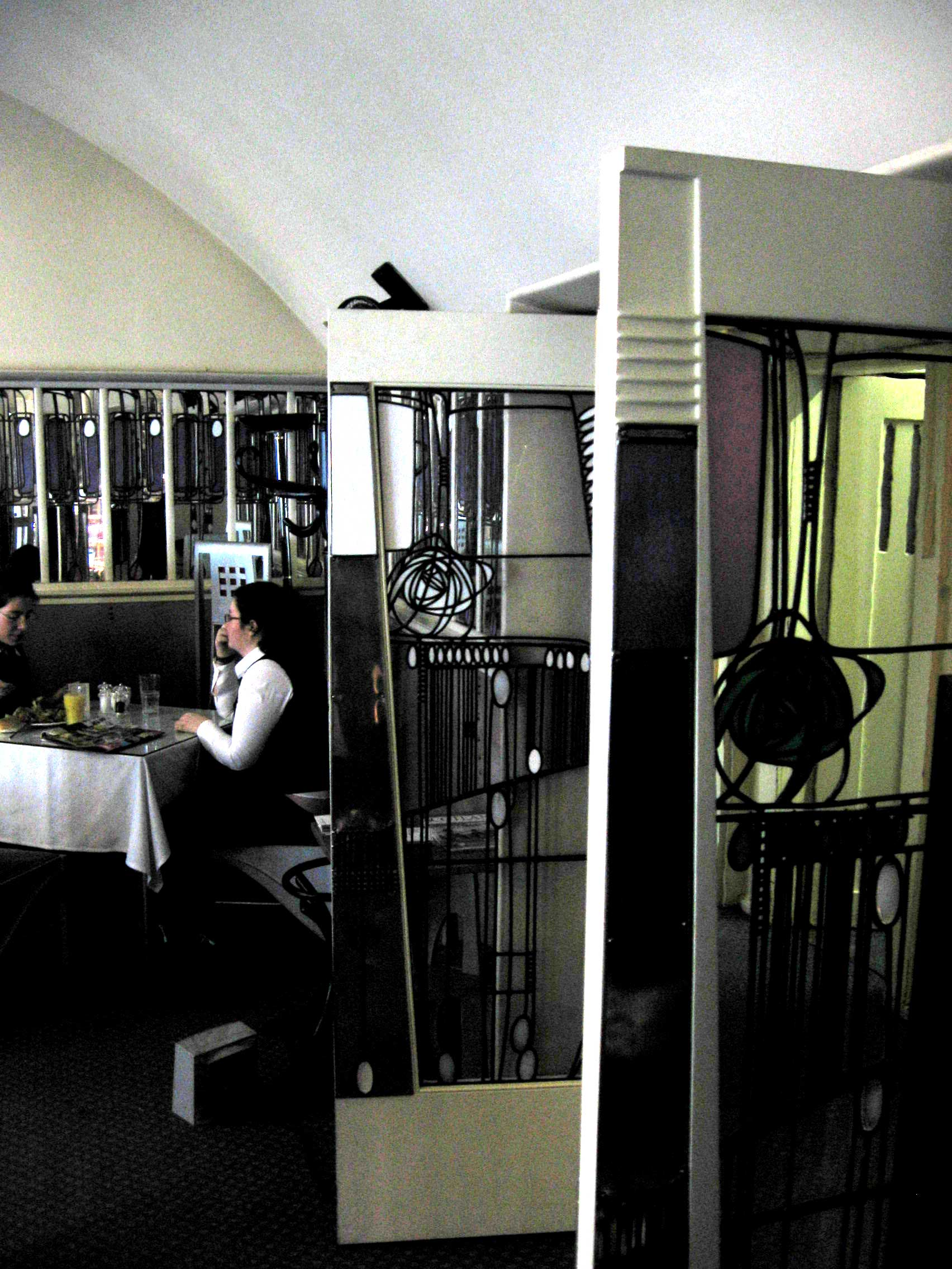 The Room de Luxe at The Willow Tearooms, Glasgow designed by Charles Rennie Mackintosh in collaboration with Margaret MacDonald for Catherine Cranston. photograph taken on 9 March 2006 by User:Dave souza. Any re-use to contain this licence notice and to attribute the work to User:Dave souza at Wikipedia.